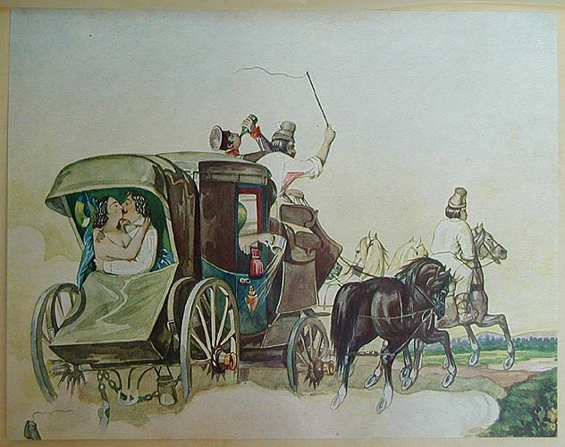 The Great Reform with illustration